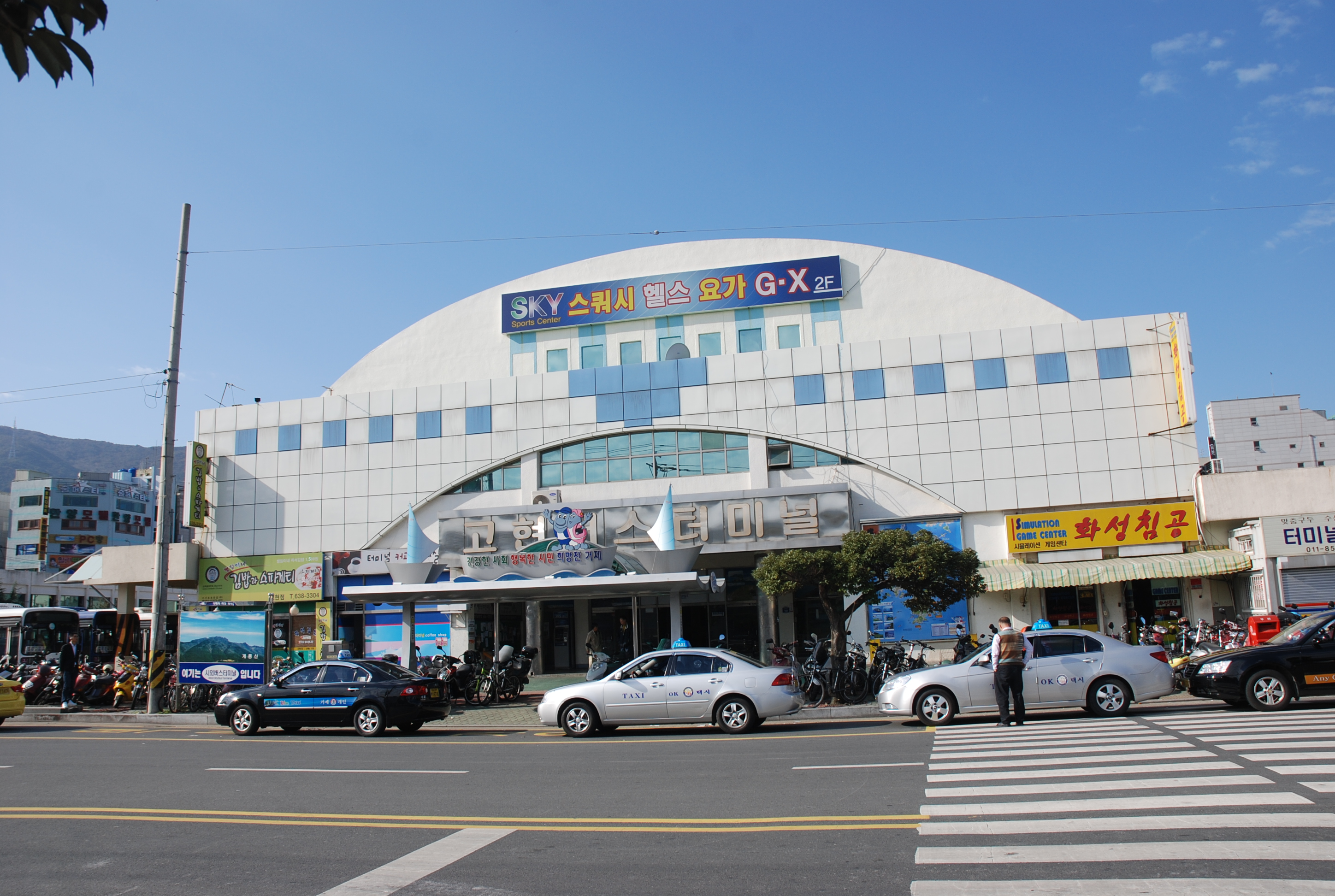 Gohyun Bus Terminal